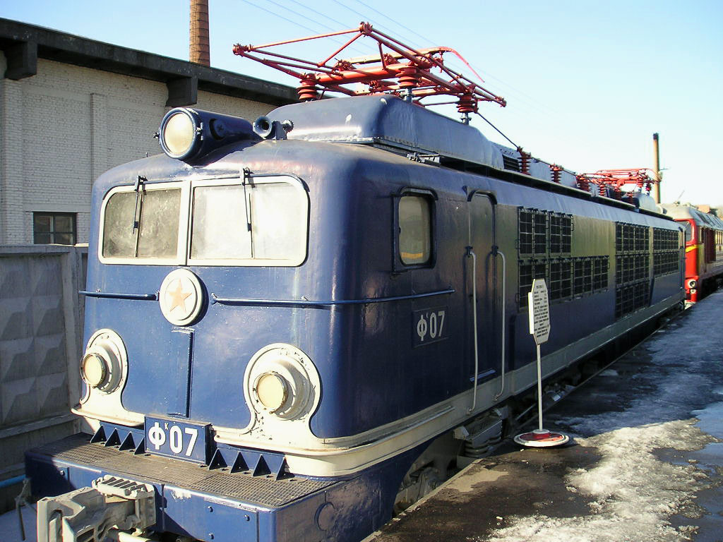 French electric locomotive built for USSR